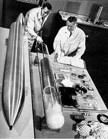 1965 Time Capsule II from New York World's Fair